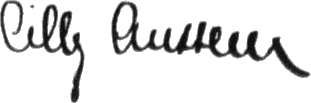 Signature of Cilly Aussem (1909-63), German tennis player